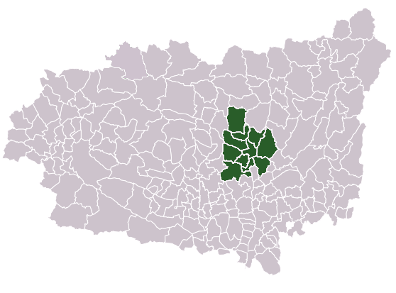 Map of the Área Metropolitana shire, in León (Spain)